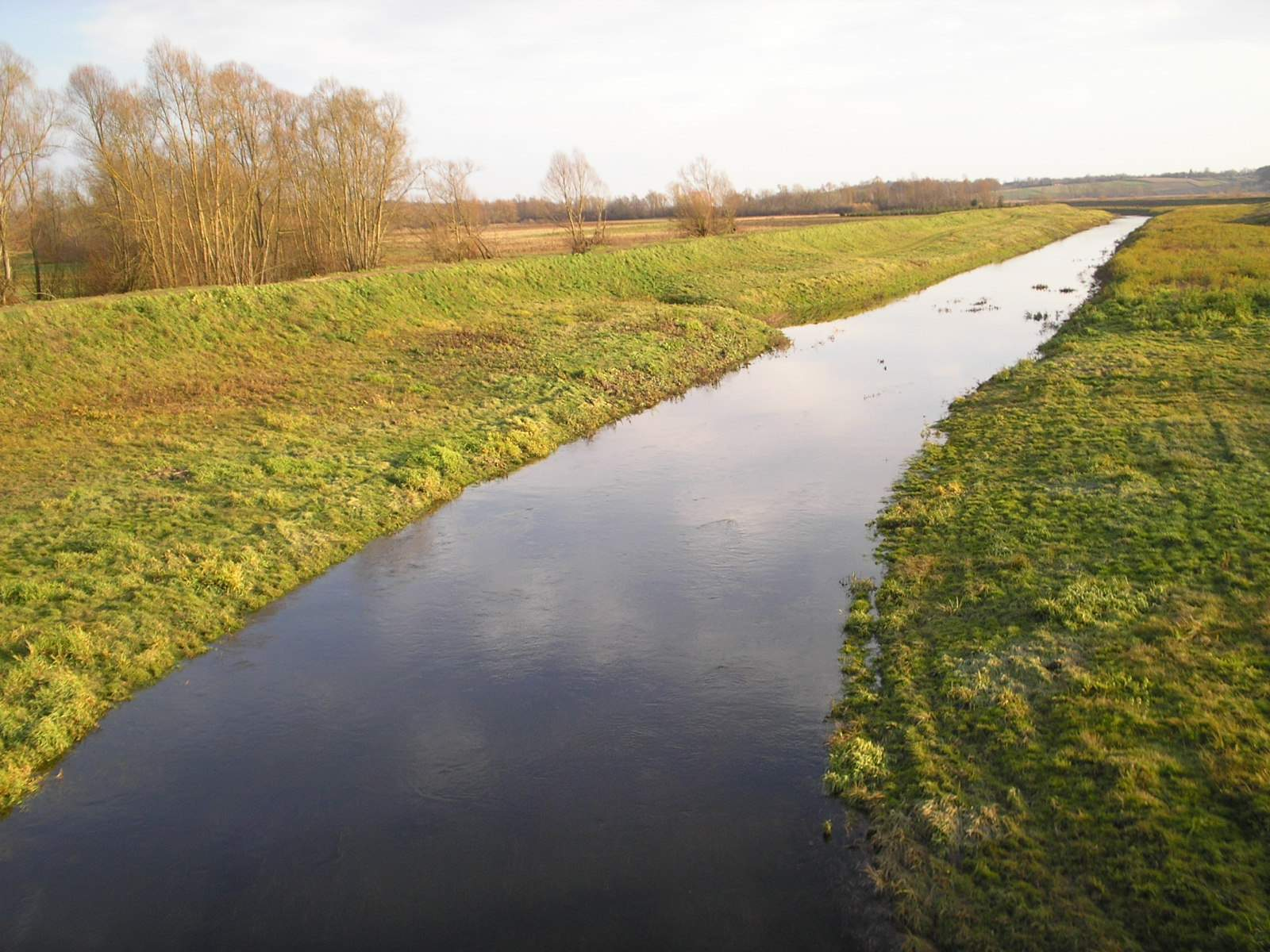 River Cesma in CroatiaHrvatski: Rijeka Česma, Narta kraj Bjelovara